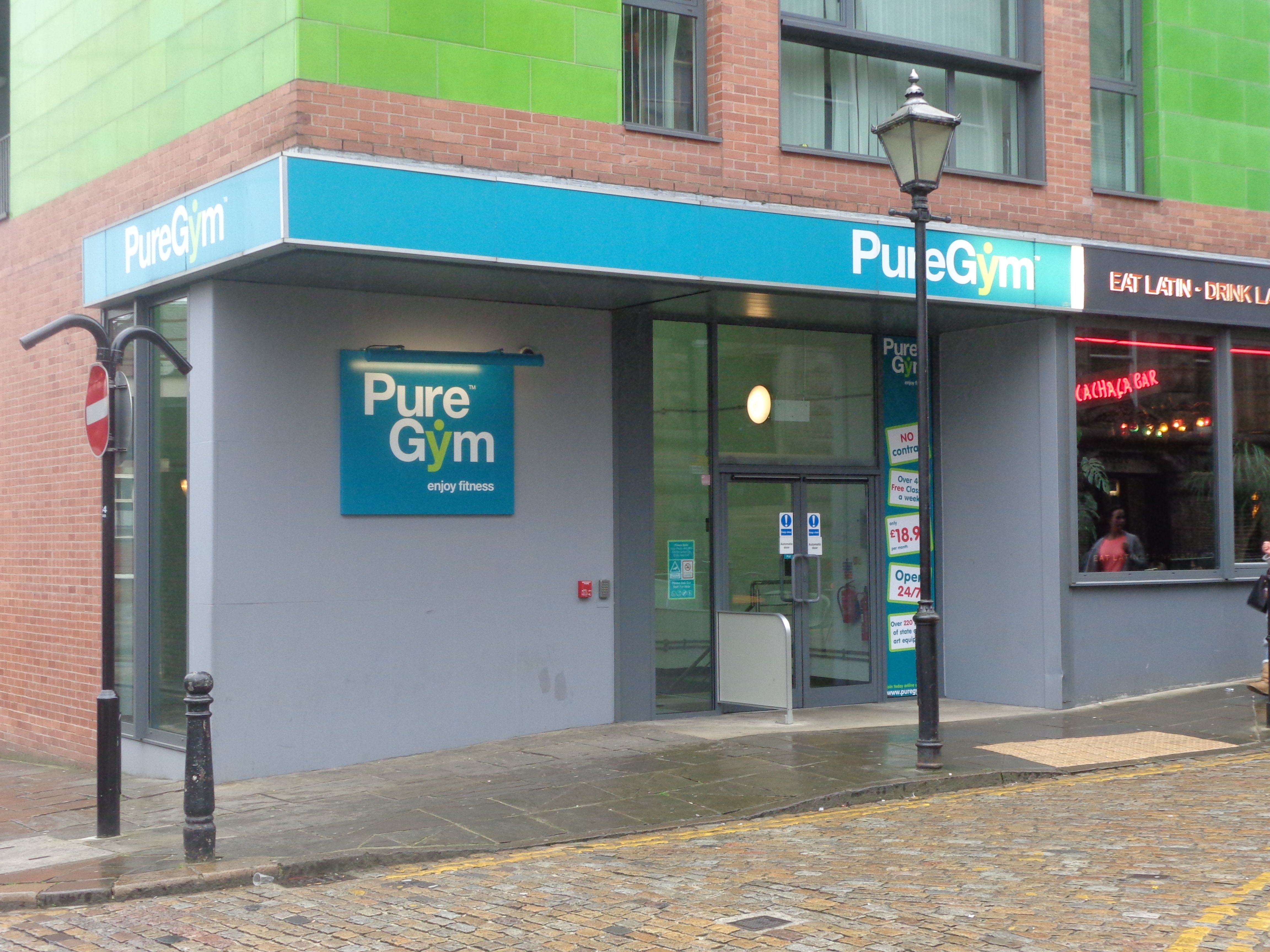 Pure Gym, Cloth Hall Street, Leeds, West Yorkshire. Taken on the afternoon of Saturday the 12th of April 2014.